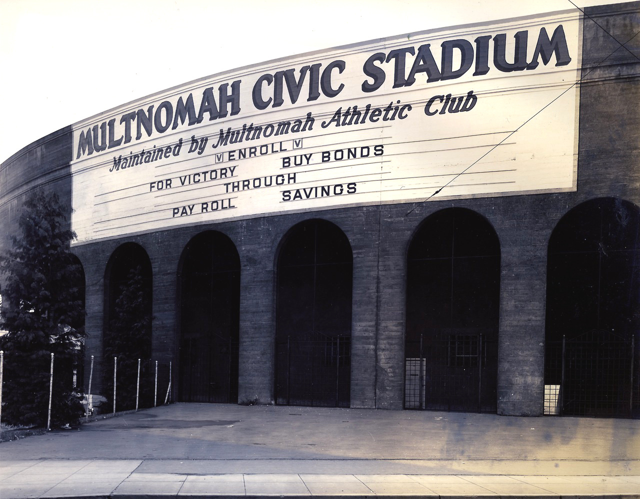 Multnomah Stadium in the Goose Hollow neighborhood of Portland, Oregon. It is now known as Providence Park.